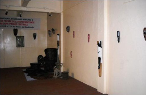 Temporary exhibition gallery